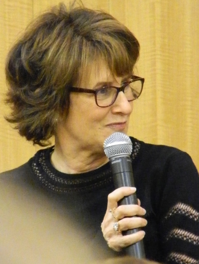 Delia Ephron visiting Barnes & Noble in New York.